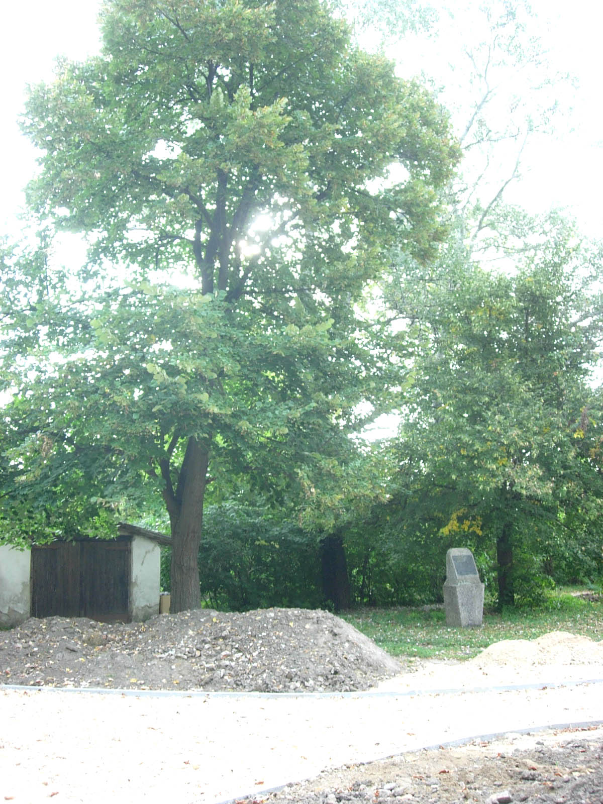 Banatsko Veliko Selo. The Catholic church stood here from 1791 till 1965.